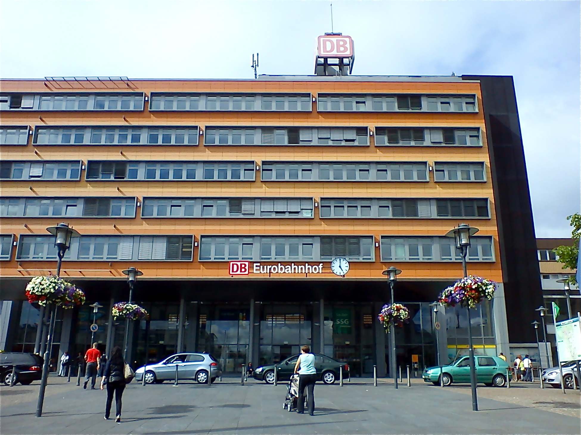 Main station of Saarbrücken